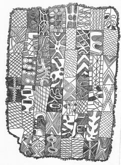 Photograph of sewn possum skin of Wurundgeri origin-By Lentisco 23/2/06 all copyright released